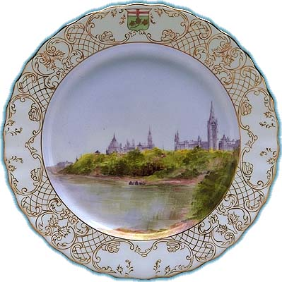 Dinner plate - Parliament Buildings and Ottawa River - A hand-painted plate from the Cabot Commemorative State Dinner Service